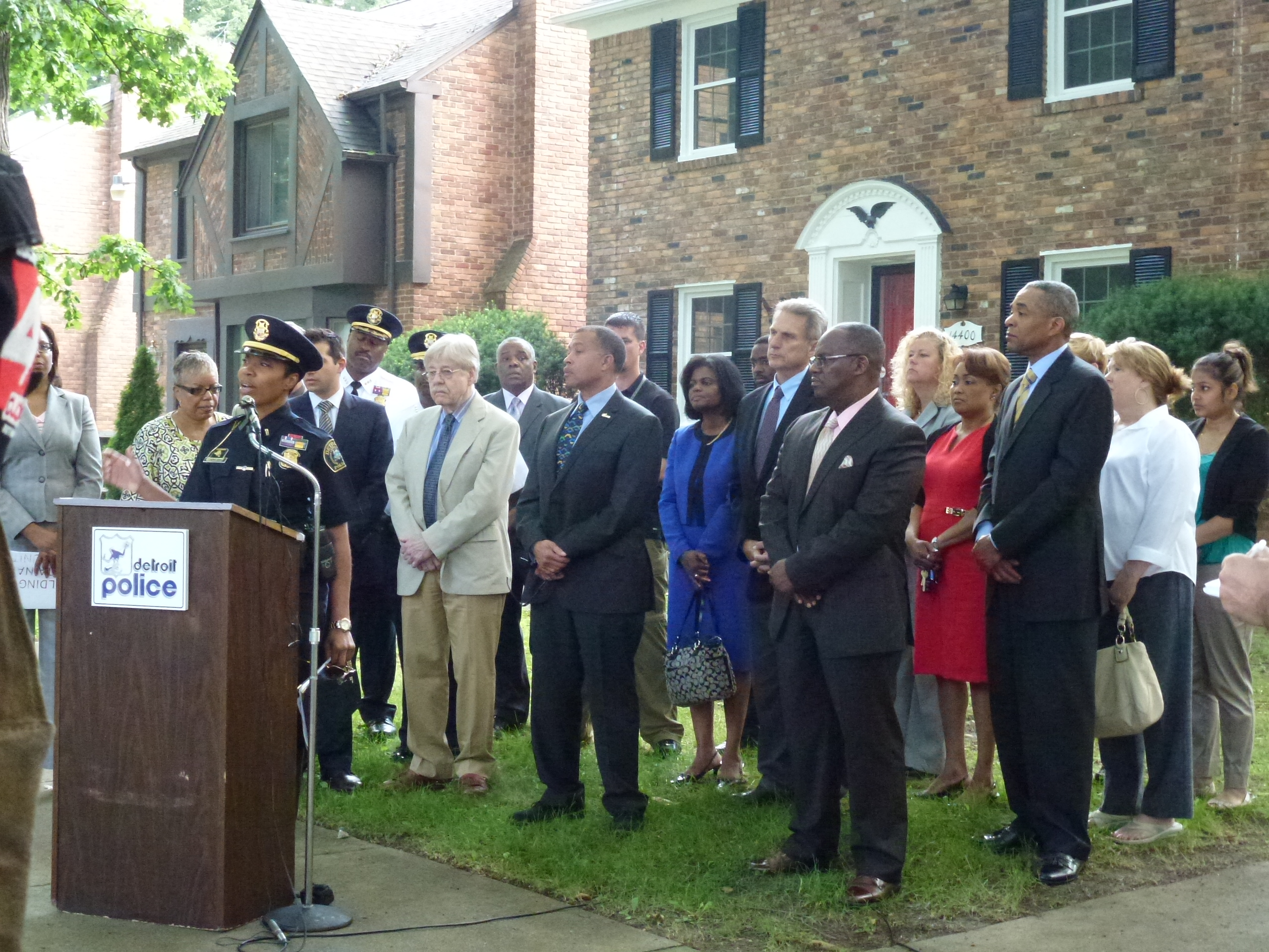 George Kelling stands with leaders of the Detroit Police Department and other local officials at a press conference in 2013. The Department partnered with Manhattan Institute for new ways to protect the neighborhoods in the area.